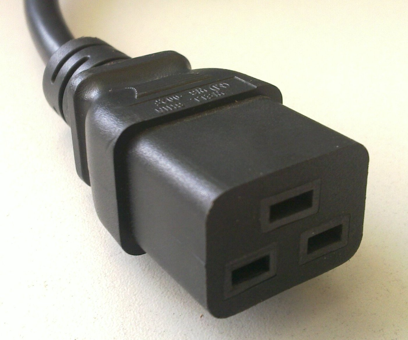 This is a photo of an IEC 60320 C19, 16A Plug